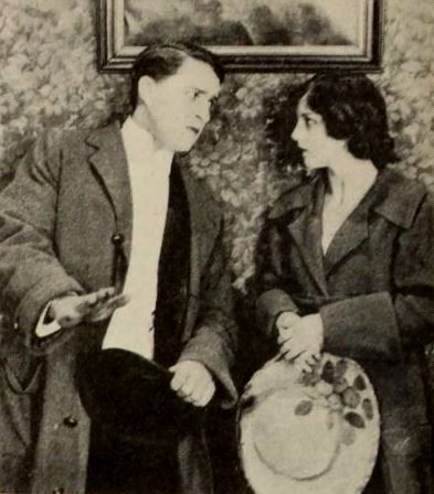 Still from the American comedy film Putting It Over (1919) with Bryant Washburn and Shirley Mason, on page 42 of the June 7, 1919 Exhibitors Herald.